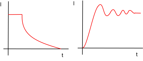 Ondas transitorias (Transitory waves)